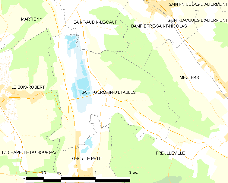 Map of French municipality Saint-Germain-d'Étables